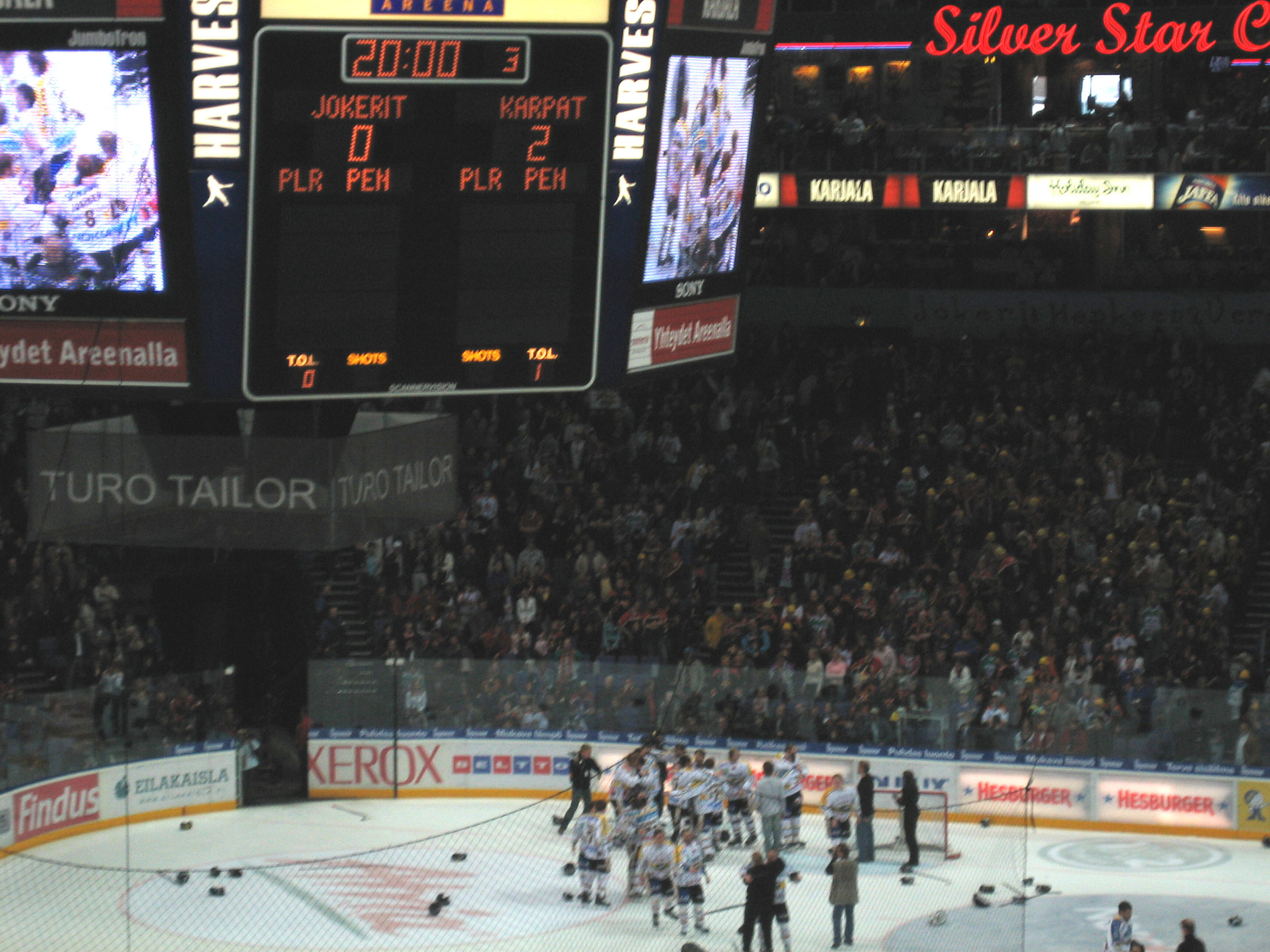 Oulun Kärpät celebrating Ice Hockey Finnish Championship in Hartwall Arena in Helsinki on April 17, 2005.